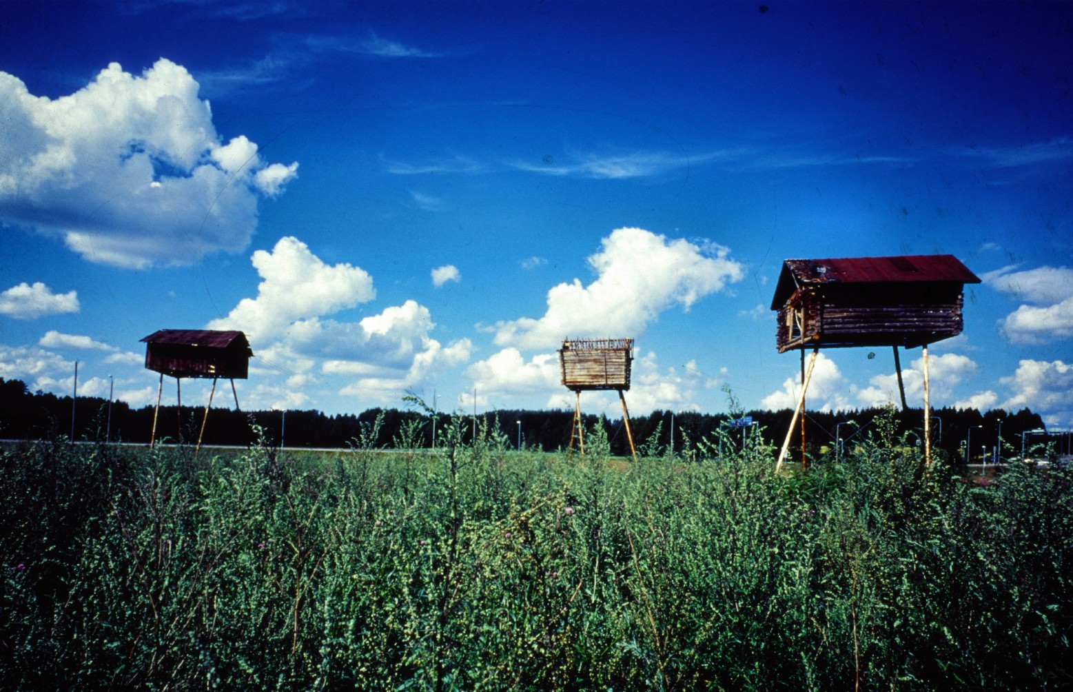 Casagrande & Rintala's architectonic installation Land(e)scape - Savonlinna, Finland